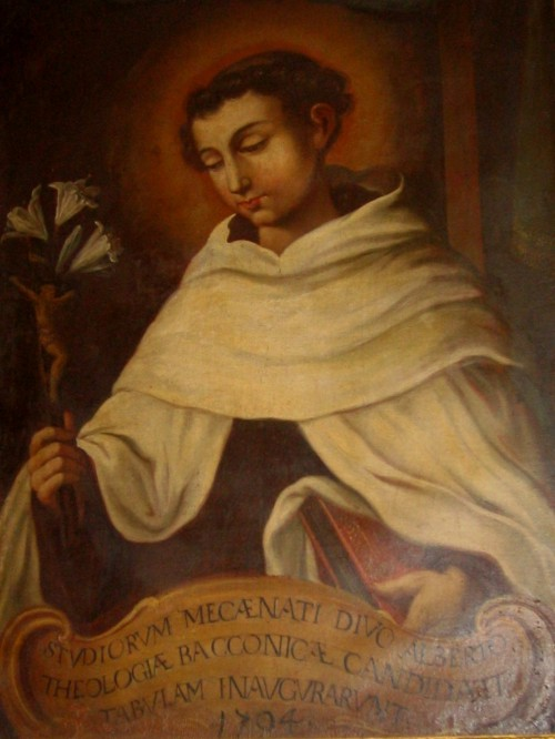 Anonymous painting with Saint Albert of Trapani, in the Centro internazionale Sant'Alberto, at Rome